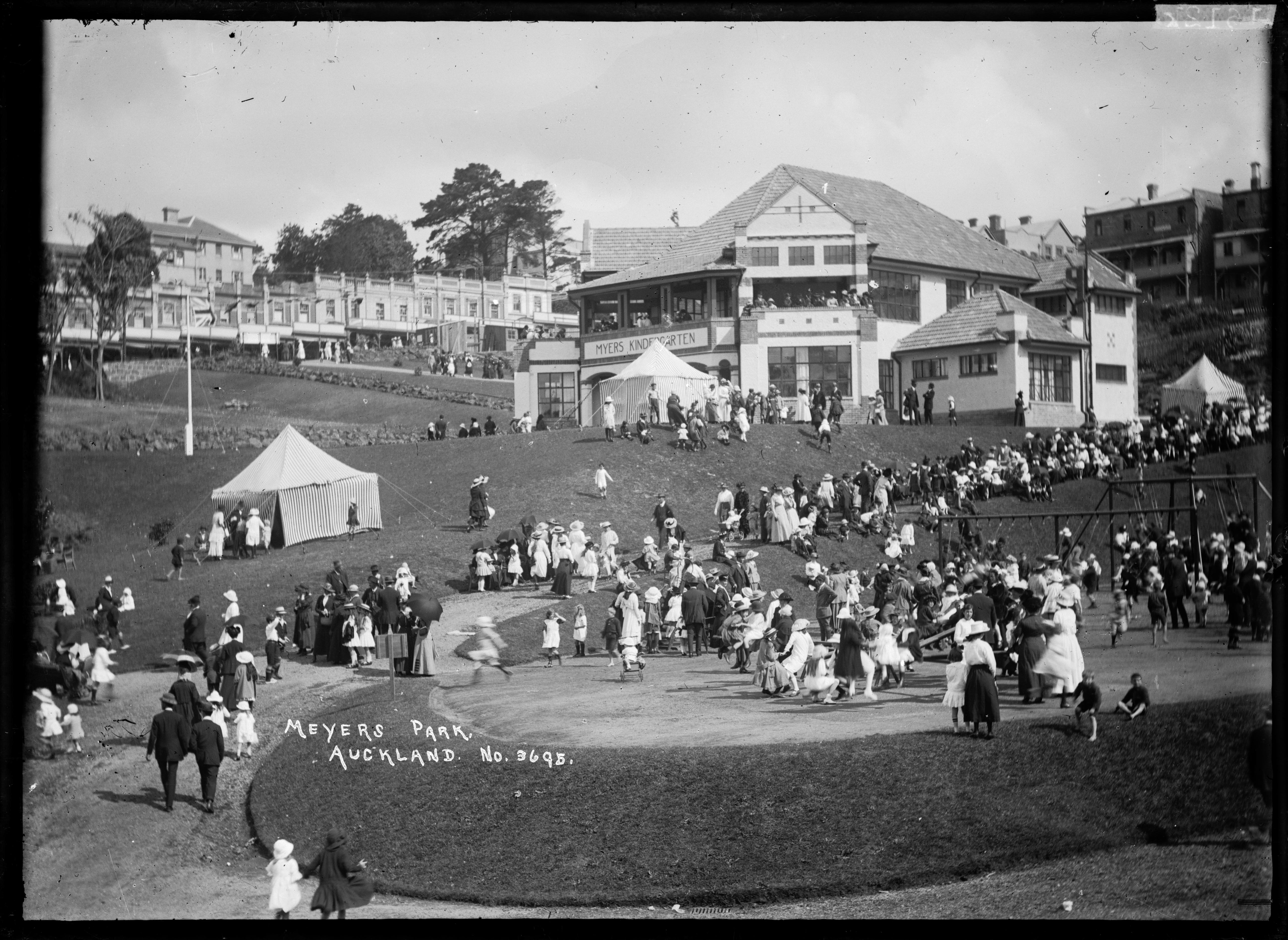 Crowd, including many children, alongside Myers Kindergarten and on the kindergarten balconies, Myers Park, Auckland, circa 1917. Some of the children are on playground equipment. The shops in upper Queen Street can be seen in the background. Tents are erected on the grassy areas around the kindergarten. The event is unidentified. Photograph taken by William A Price. Inscriptions: Inscribed - Photographer's title on negative -bottom left: Meyers [sic] Park. Auckland No 3695. Quantity: 1 b&w original negative(s). Physical Description: Dry plate glass negative 4.5 x 6.5 inches Crowd alongside Myers Kindergarten, Myers Park, Auckland. Price, William Archer, 1866-1948 :Collection of post card negatives. Ref: 1/2-001646-G. Alexander Turnbull Library, Wellington, New Zealand.